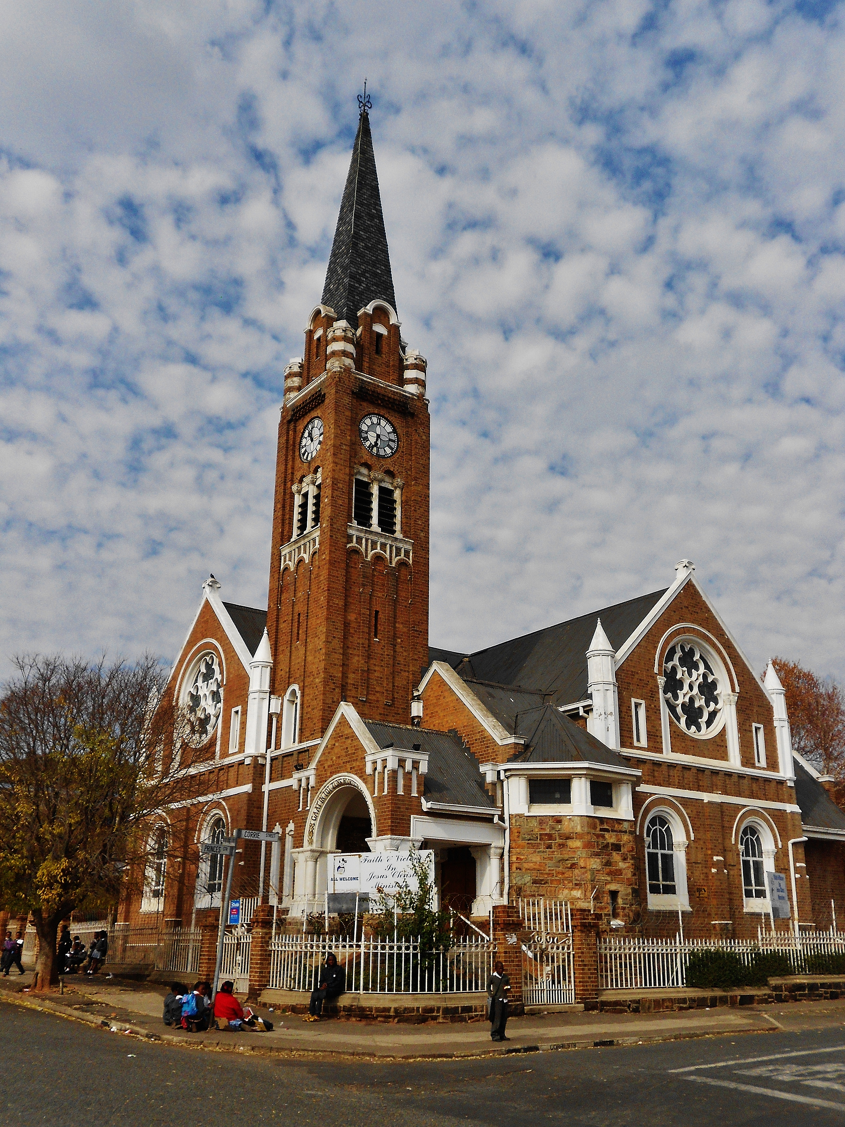 Built in Fairview in 1906. Found in Cnr Corrie and Op De Bergen street, Jeppestown, South Africa. This media shows a South African Protected Site with SAHRA file reference 9/2/228/0244.